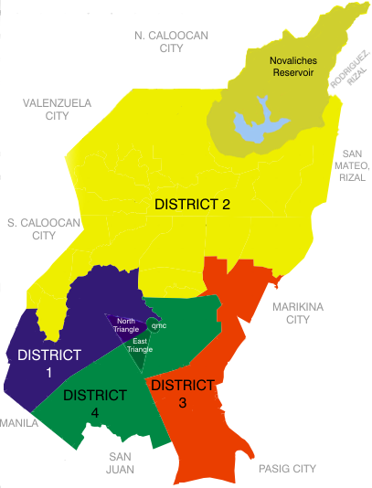 Legislative districts of Quezon City when it still had only four districts.